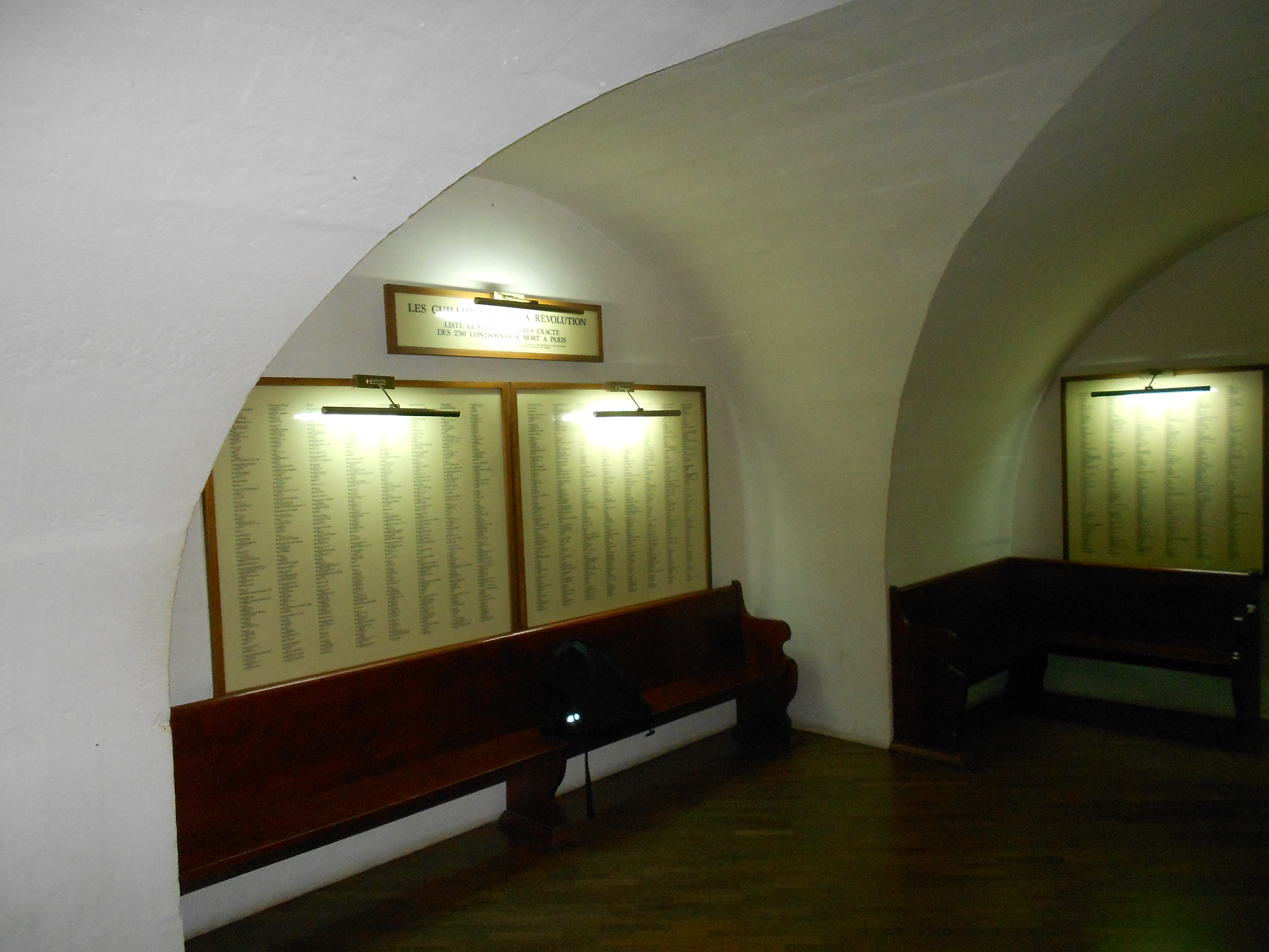 In a room in the conciergerie all the names auf the 2780 men and women are remembered who were condemned to death during the French Revolution in Paris.